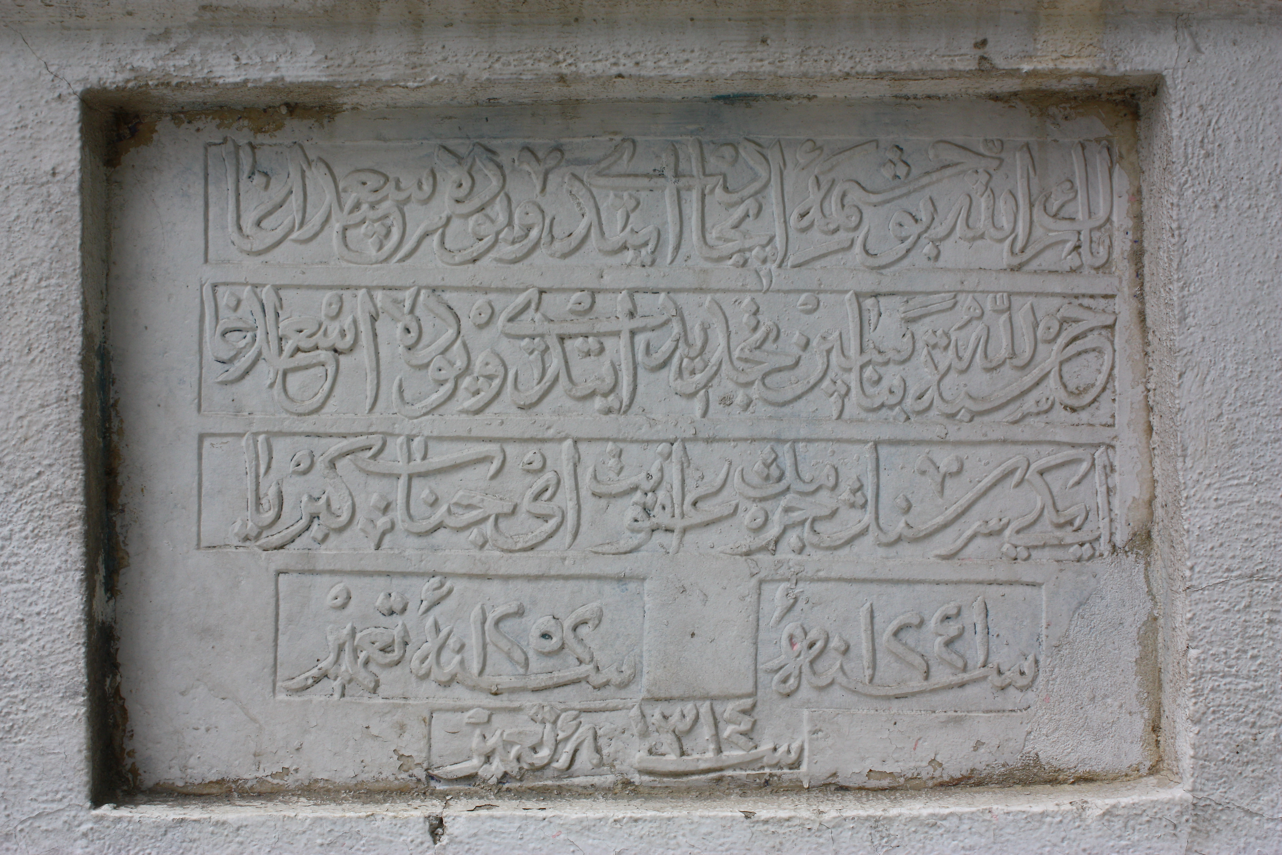 Prilep, Macedonia